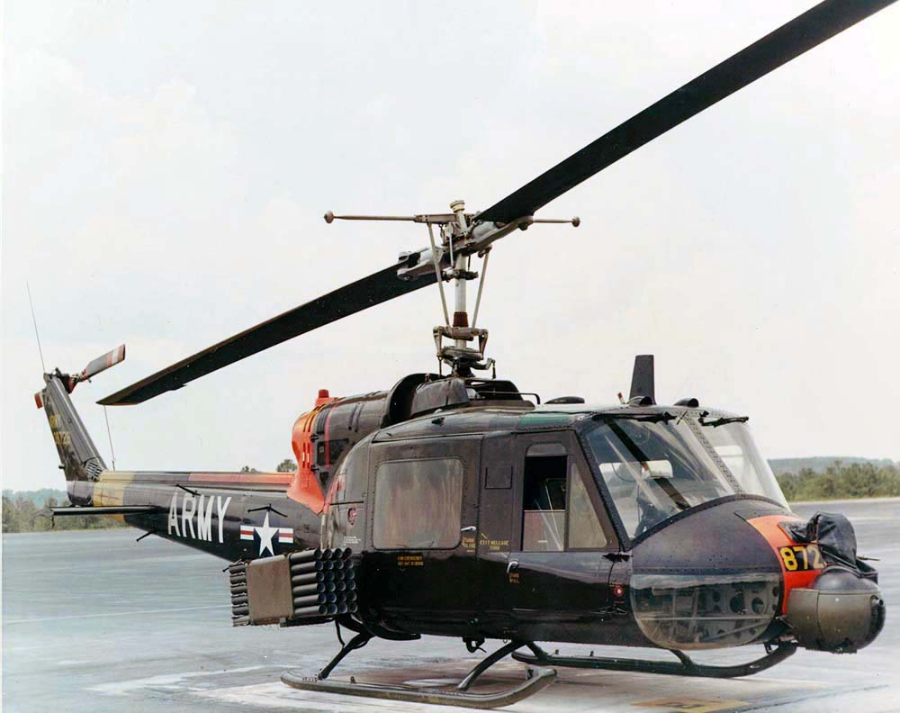 A U.S. Army Bell UH-1C Iroquois with rockets and a grenade launcher.Note: Although this is described as an UH-1C, the serial 63-8725 identifies this as an UH-1B.